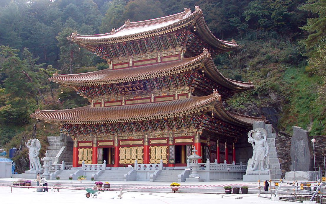 Great Teacher Hall (Daejosajeon). A shrine erected in the memory of Sangwol Wongak, a large statue of whom can be found inside. Guinsa, located near Danyang South Korea, has architecture following that of many other Buddhist temples in Korea, but is also markedly different in that the structures are several stories tall, instead of the typical one or two stories that structures found in many other Korean temples.